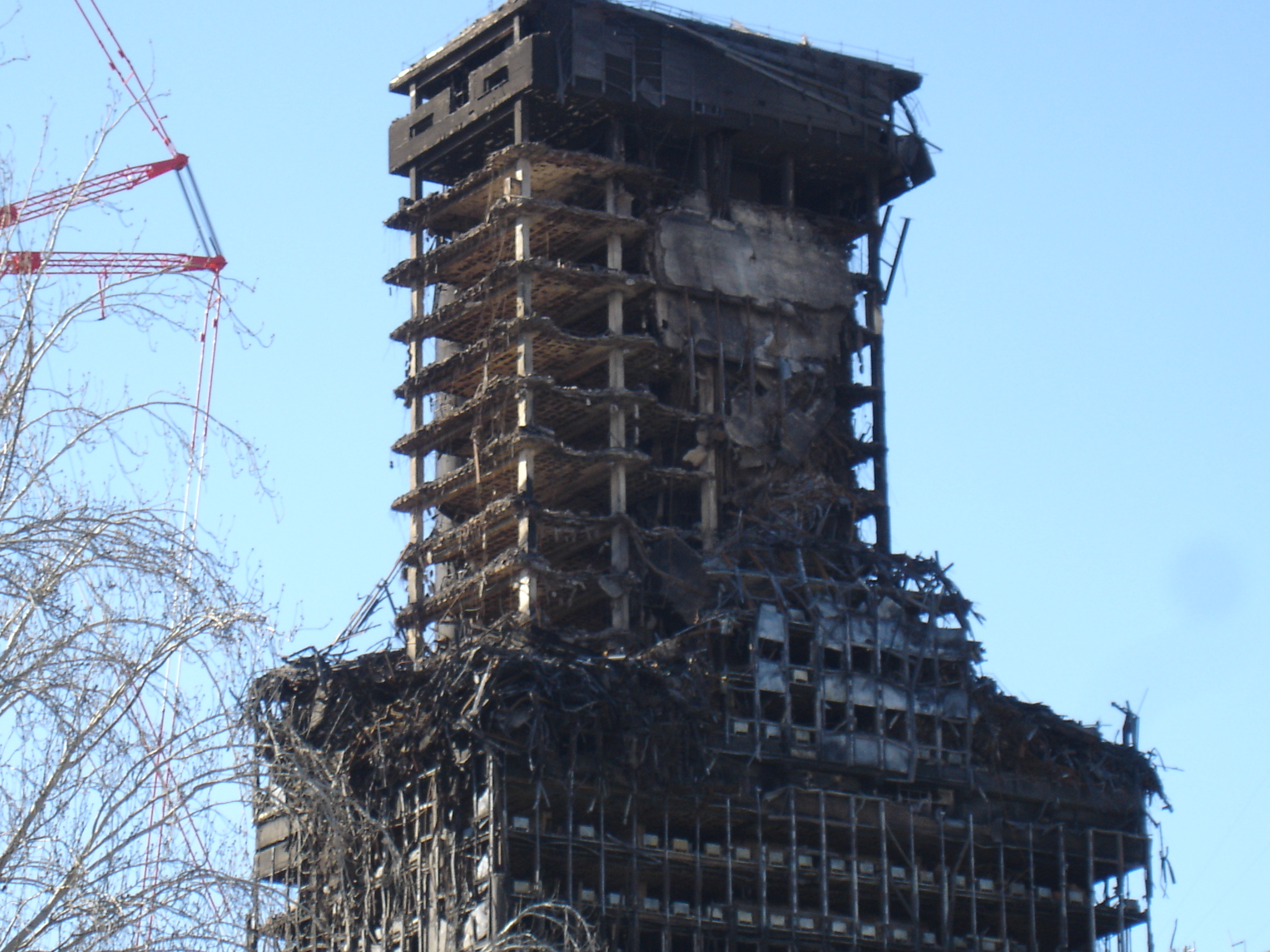 Windsor churruscado